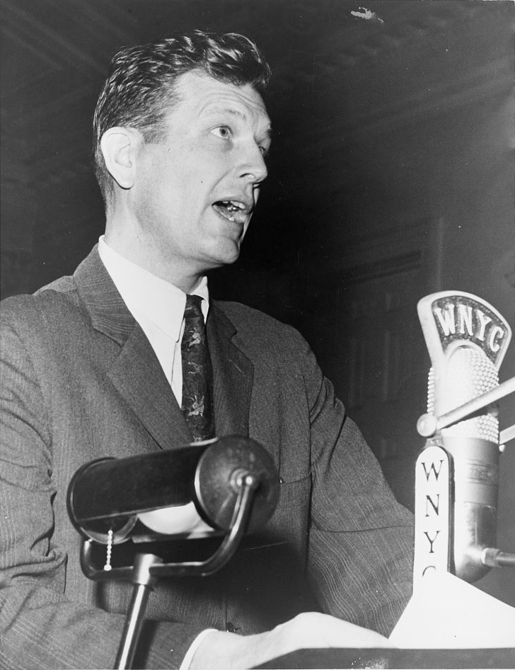 Congressman John V. Lindsay speaking at Board of Estimate meeting at City Hall on [ex]pressway.